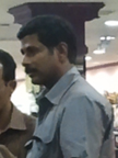 Kumar Edappal